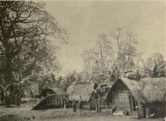 Bateke village, Kinshasa. Plate-III in Congo natives : an ethnographic album (1912) by Frederick Starr, 1858-1933.